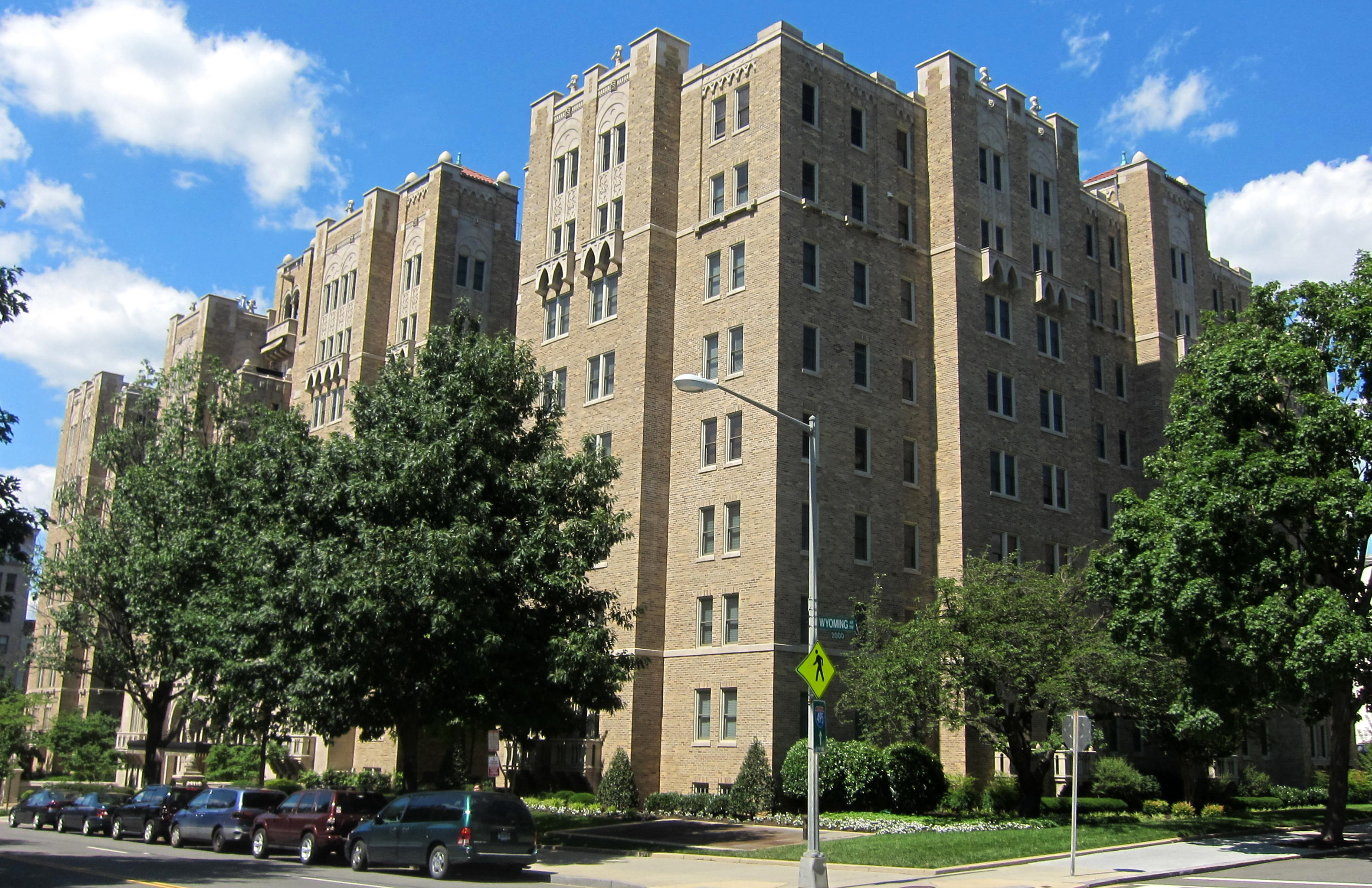 2101 Connecticut Avenue, N.W., a housing cooperative located in the Kalorama neighborhood of Washington, D.C. Built in 1928 by developer Harry M. Bralove and his partners, Edward C. Ernst and John J. McInerney, the Spanish Colonial Revival style former apartment building was designed by architects Joseph H. Abel and George T. Santmyer. 2101 Connecticut Avenue is designated as a contributing property to the Kalorama Triangle Historic District, listed on the National Register of Historic Places in 1987. Former occupants include Alben W. Barkley, William E. Borah, Theodore E. Burton, Benjamin N. Cardozo, Tom C. Clark, Willis Van Devanter, Leslie Groves, John Kluge, and Arthur L. Willard.